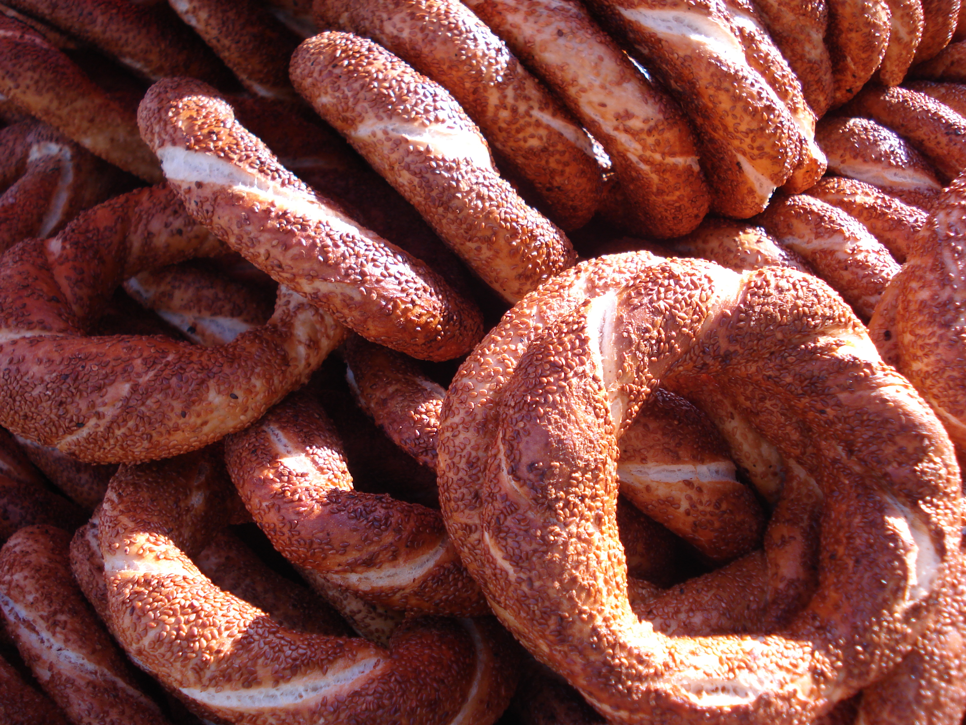 Simit